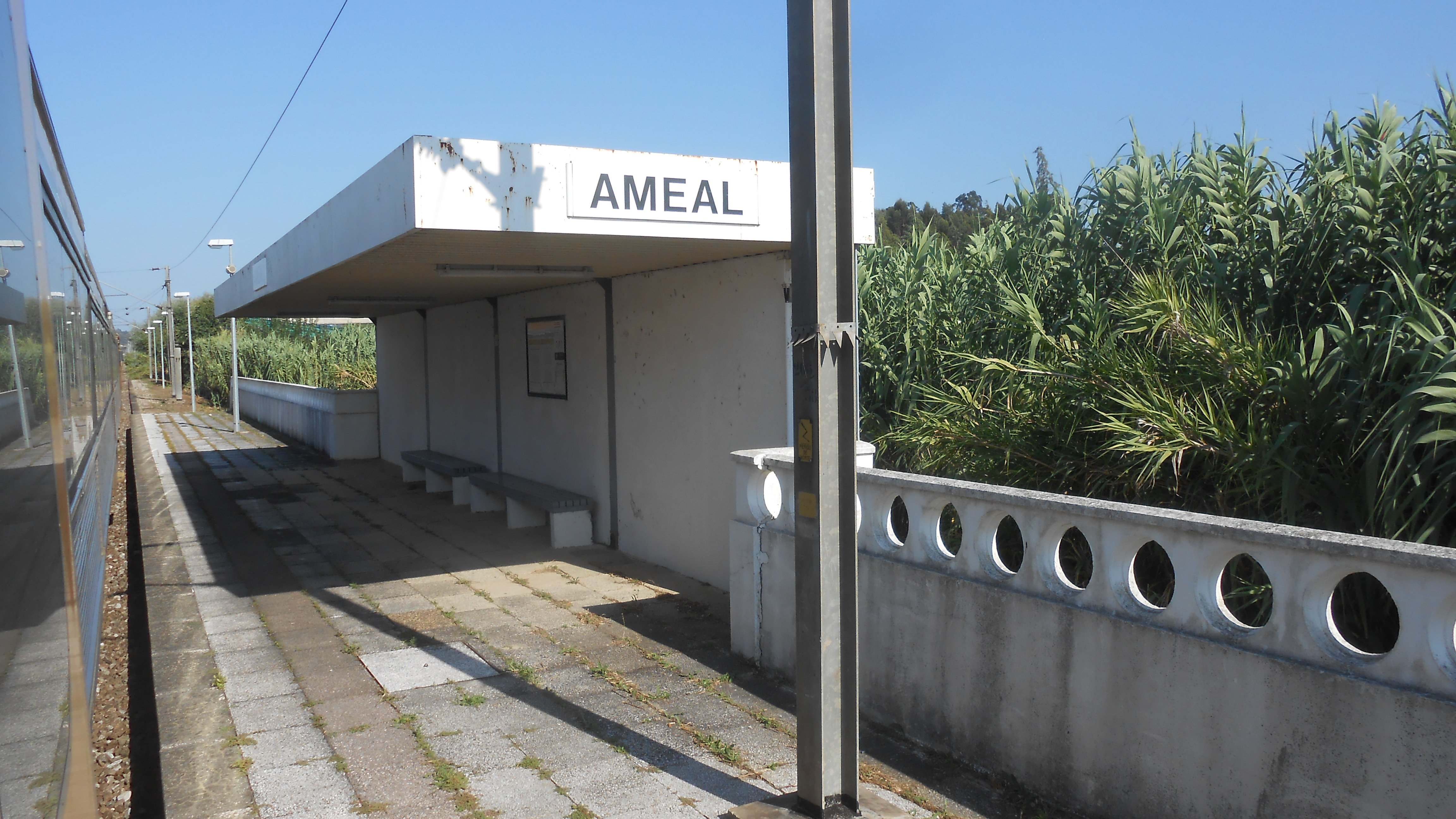 The railway stop of Ameal or also Ameal at the Linha do Norte which is the main railway track in Portugal.